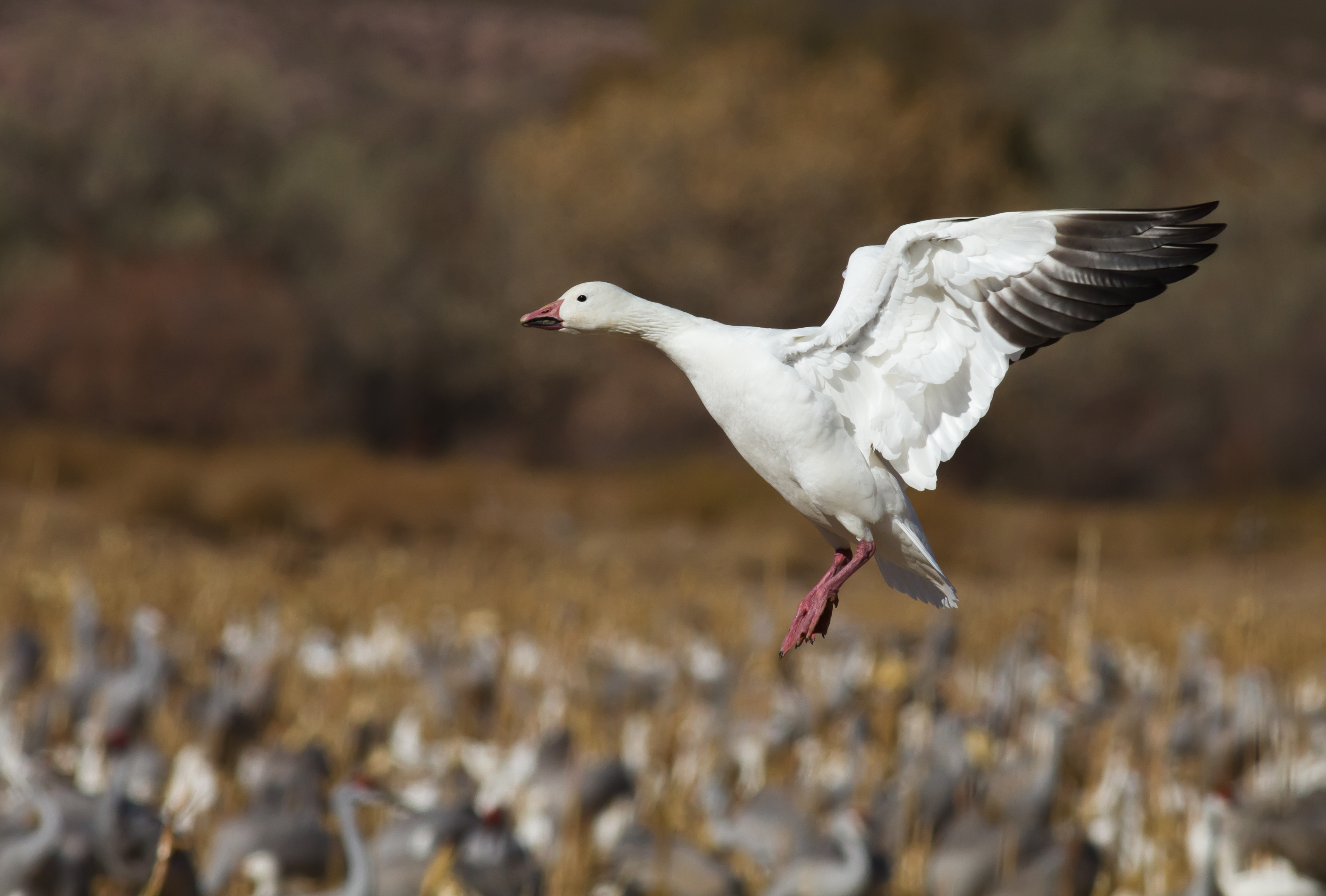 A Snow Goose landing at Bosque del Apache National Wildlife Refuge.